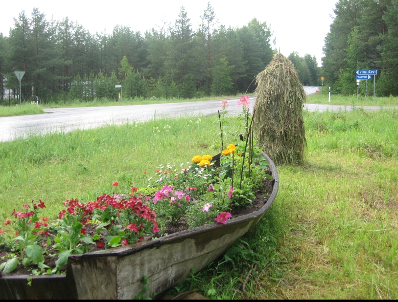 Käsämä road Liperi Finland